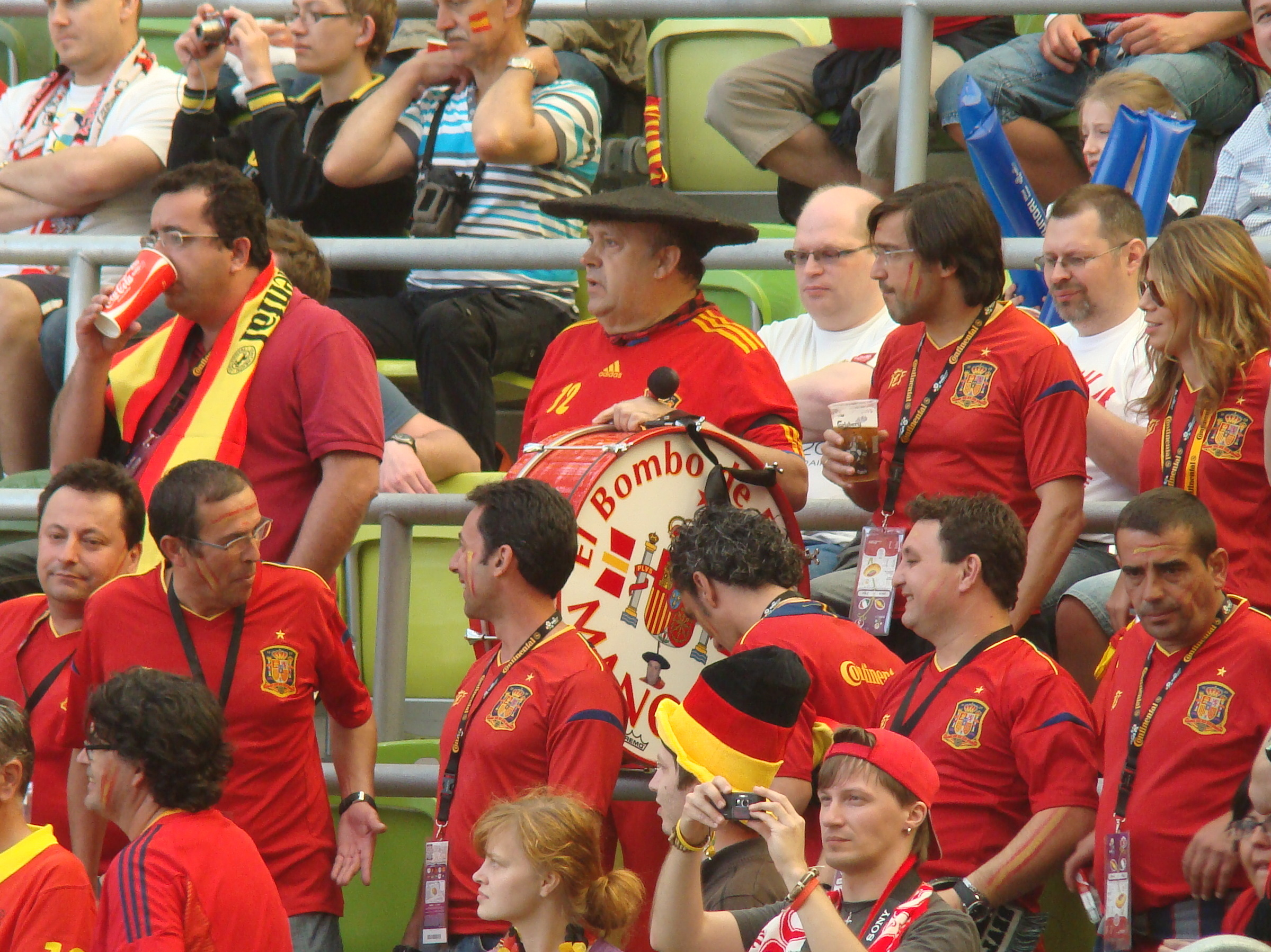 Manolo el del bombo at the match Spain - Italy in Gdańsk during Euro 2012